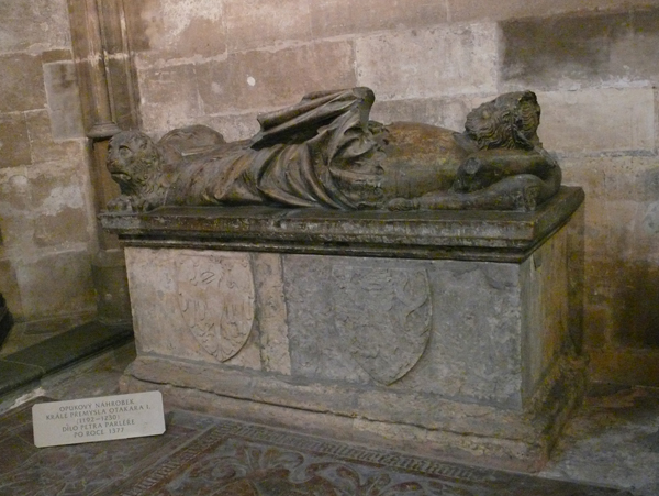 Ottokar I Premysl